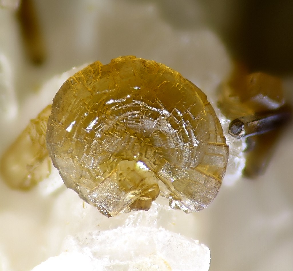 Zanazziite Locality: Jenipapo district, Itinga, Jequitinhonha valley, Minas Gerais, Southeast Region, Brazil (Locality at ) Microprobed specimen. Picture width 2 mm. Collection and photograph Christian Rewitzer This Photo was Photo of the Day - 15th Dec 2007